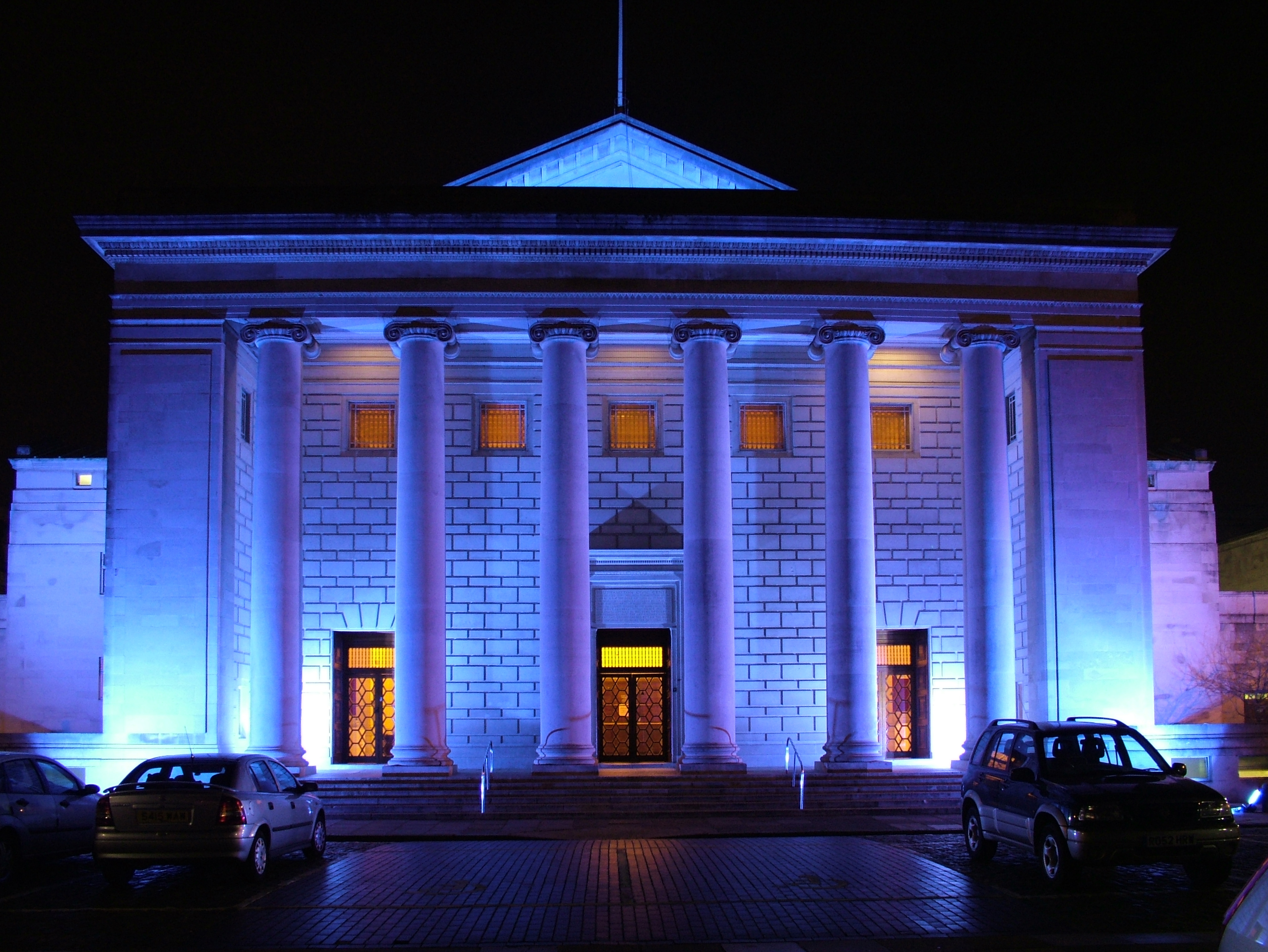 Southampton Guildhall Southampton's Largest Multi-purpose Entertainment Venue